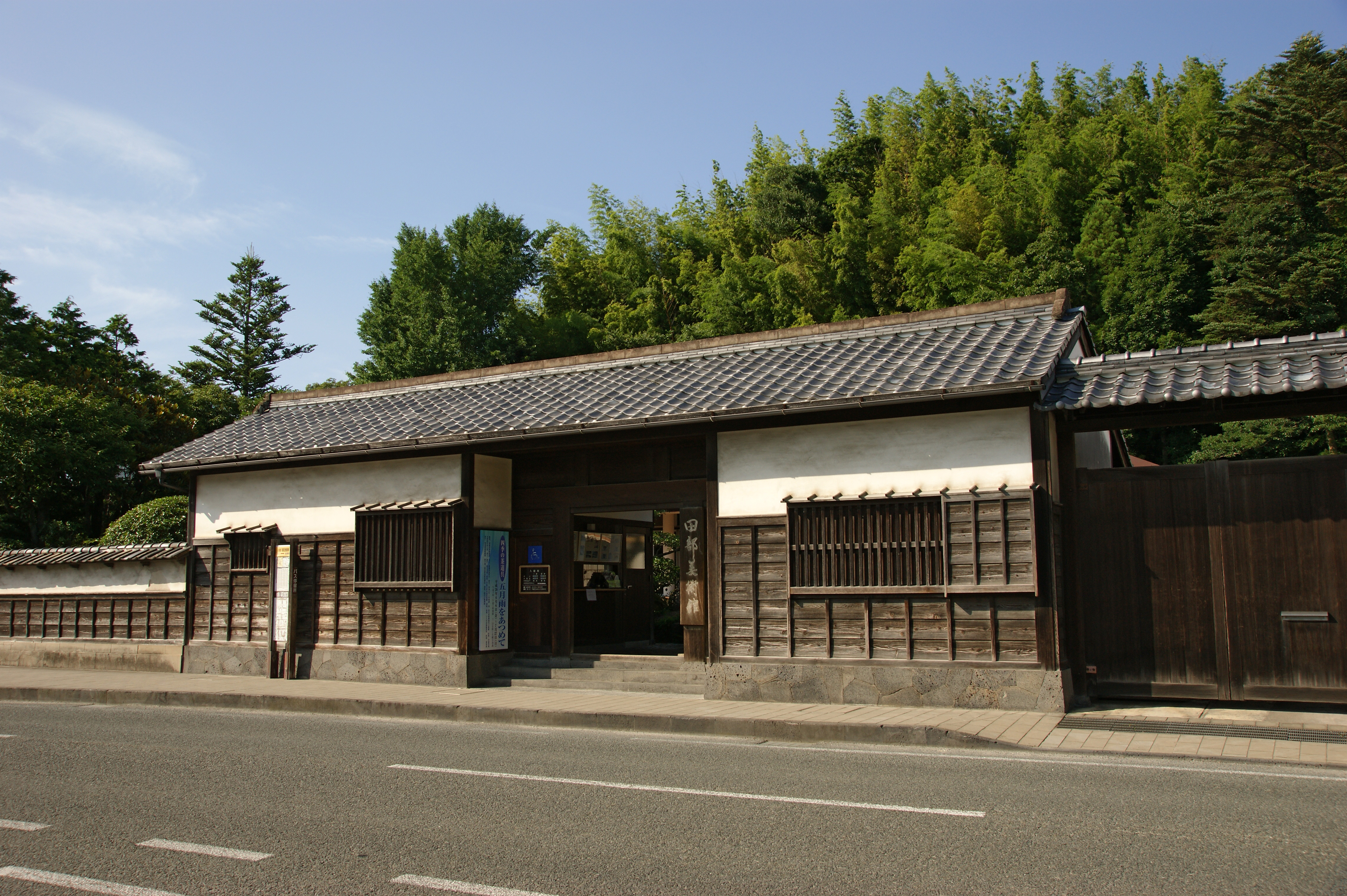 Shiominawate in Matsue, Shimane prefecture, Japan